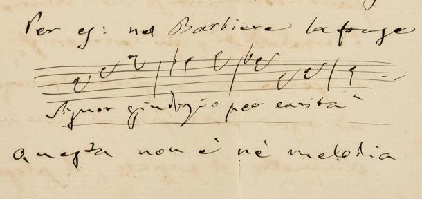 Fragment of a letter sent from Genoa by Giuseppe Verdi to Opprandino Arrivabene:Opprandino Arrivabene dated 17 March 1882